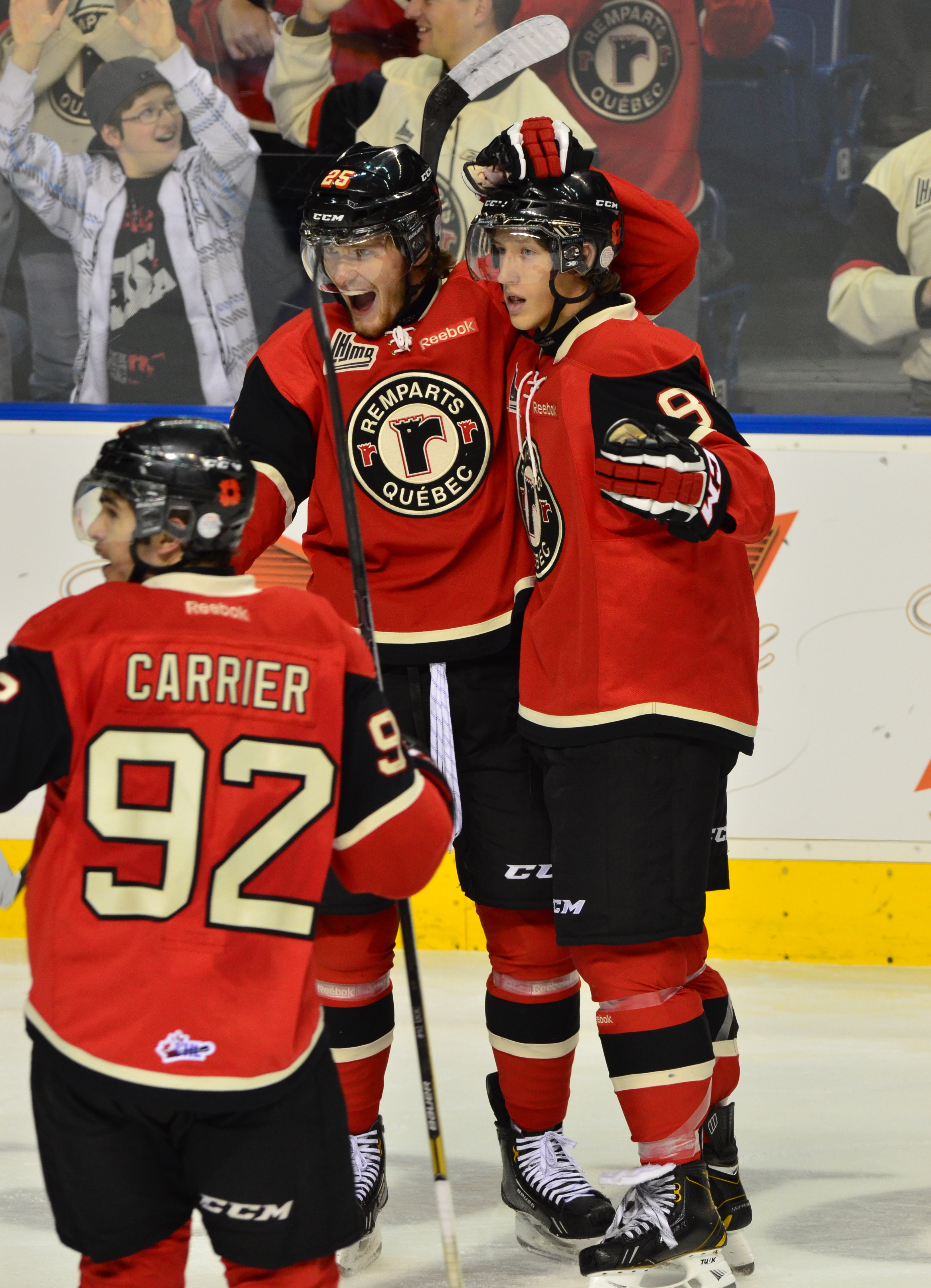 At a hockey game of the QJMHL between the Quebec Remparts and the Cape Breton Screaming Eagles.